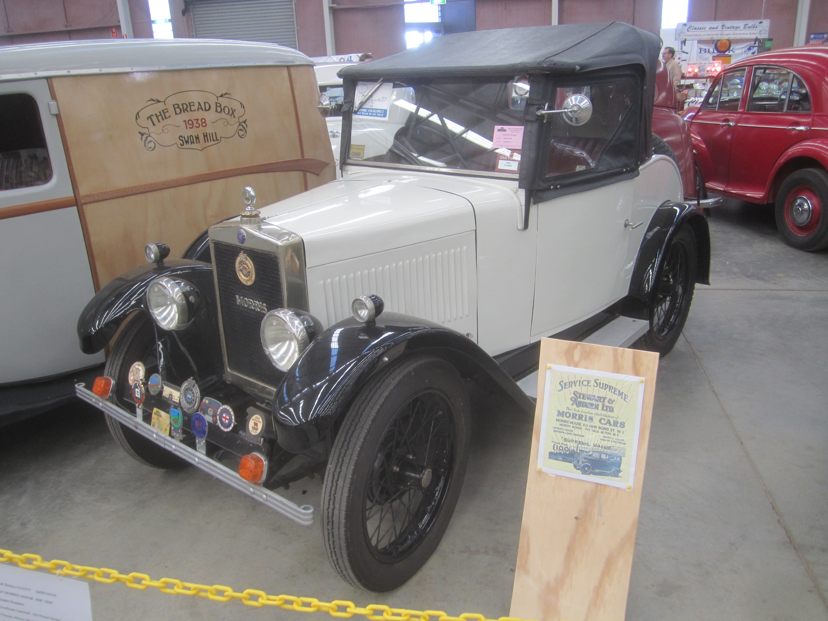 The success of the Austin 7, launched in 1922, stimulated Austin's competitors to come up with rival designs. The Minor was Morris's attack on the small-car market. This 1st Minor was built from 1928, it was replaced by the Morris 8 in 1934. The Minor was available in 4-door saloon, 2-seat sports, 4-seat tourer, Coupe and Van Engine; 847cc OHC 4 cyl (sidevalve from 1933 on)